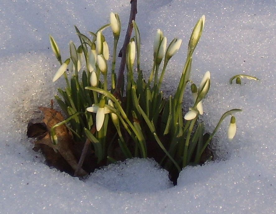 Galanthus nivalis in snow pic. made by J C D 18:34, 26 March 2006 (UTC)